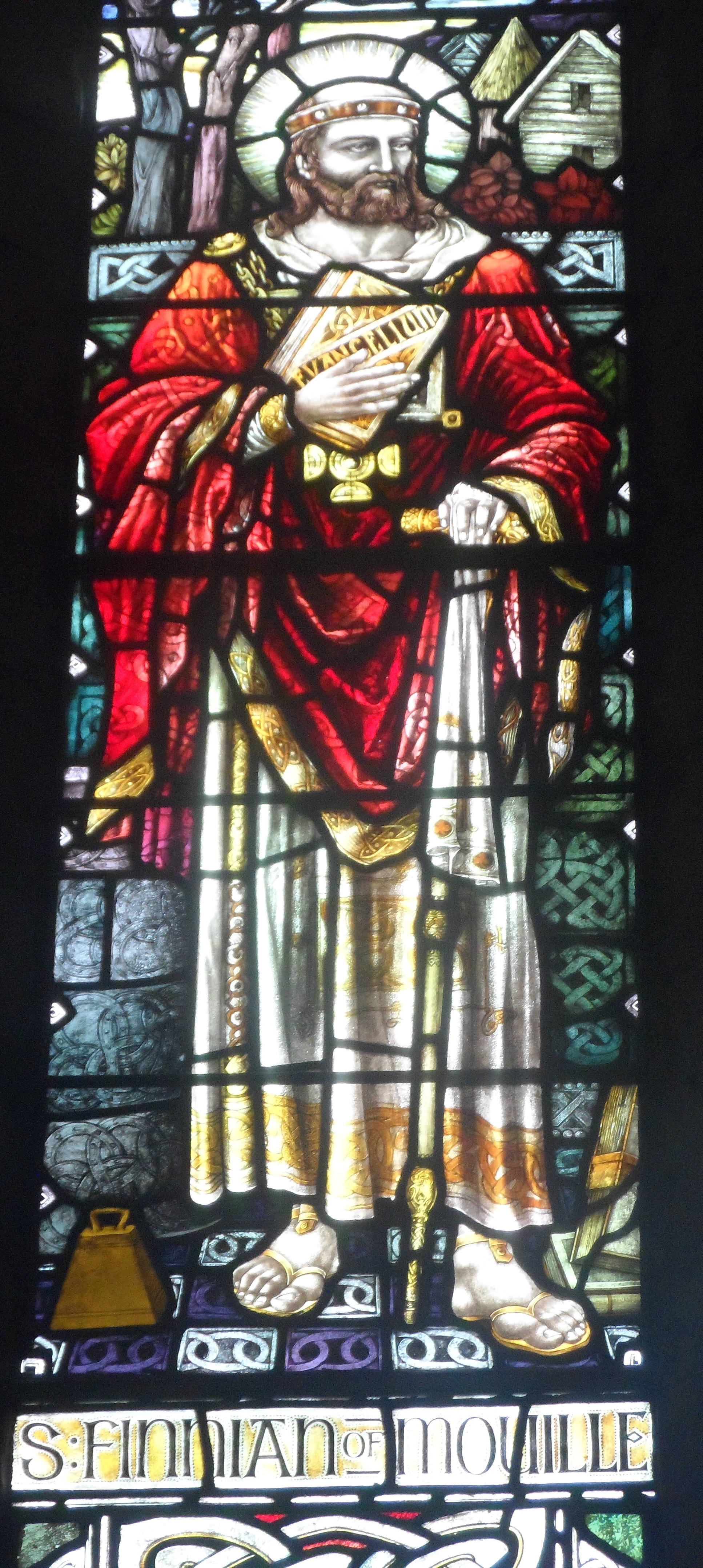 Finnian of Moville window